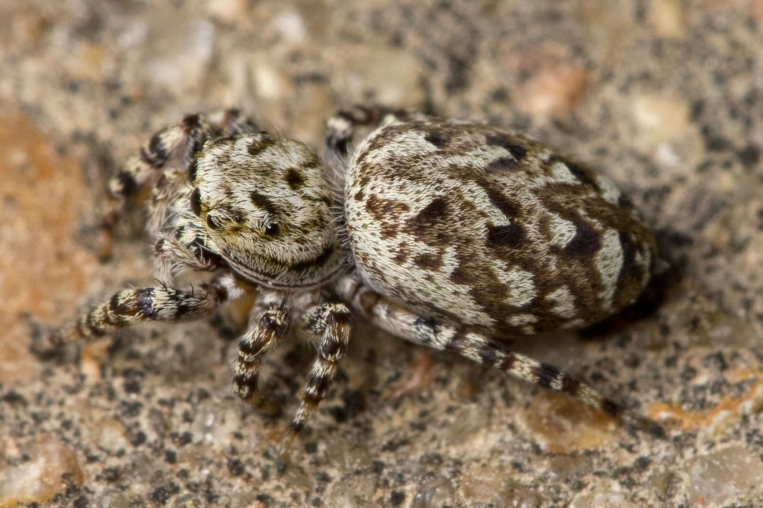 Female peppered jumper (Pelegrina galathea) near Henryetta, Okmulgee County, Oklahoma, USA.